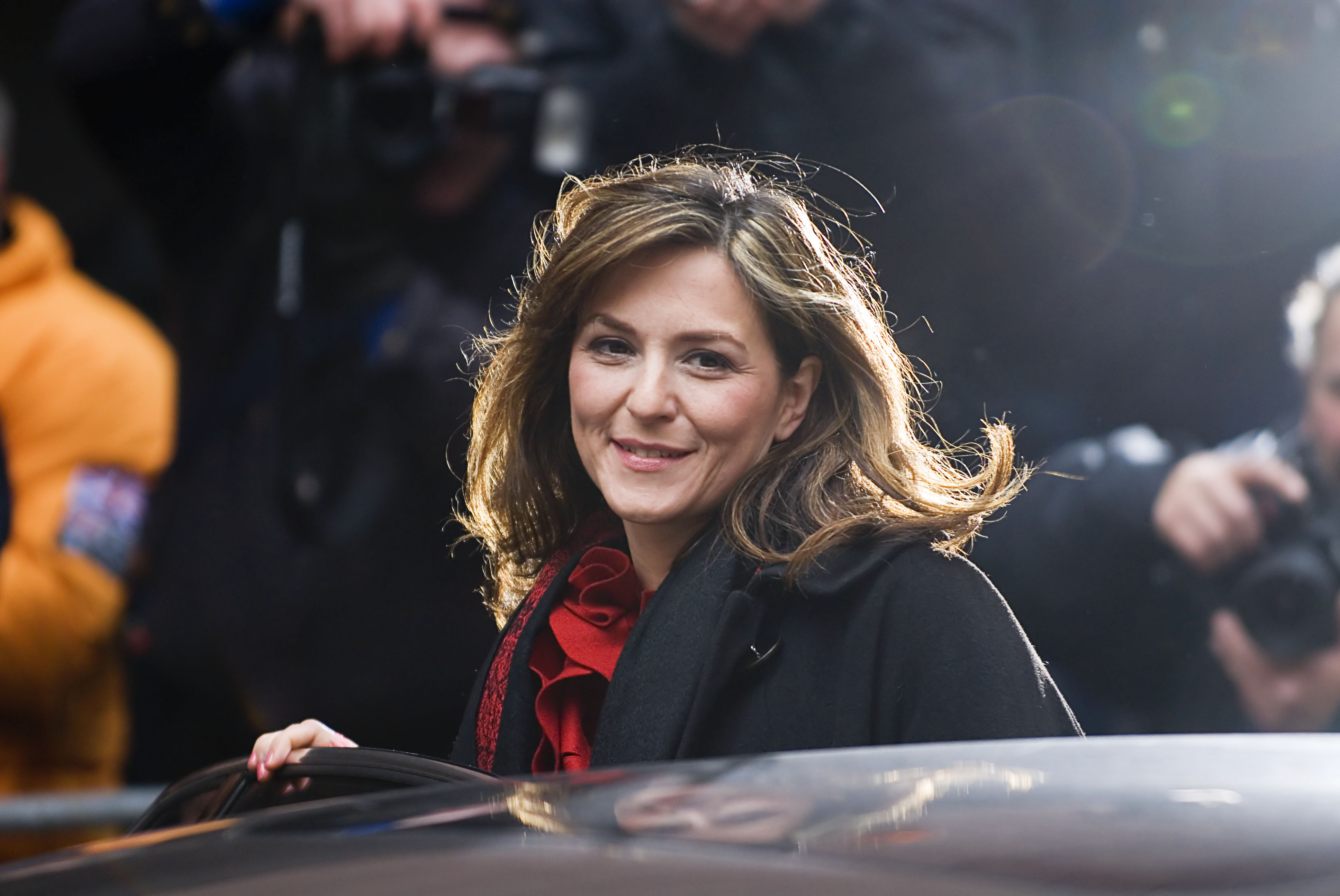 Martina Gedeck leaving the press conference of "The good shepherd", Hyatt Hotel, Potsdamer Platz, Berlin.